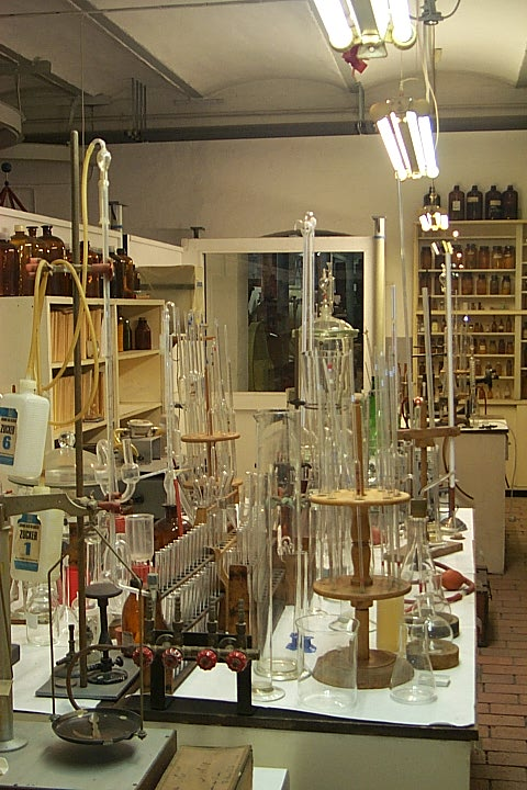 Open air museum Roscheider Hof, Konz, Germany - wine control laboratory